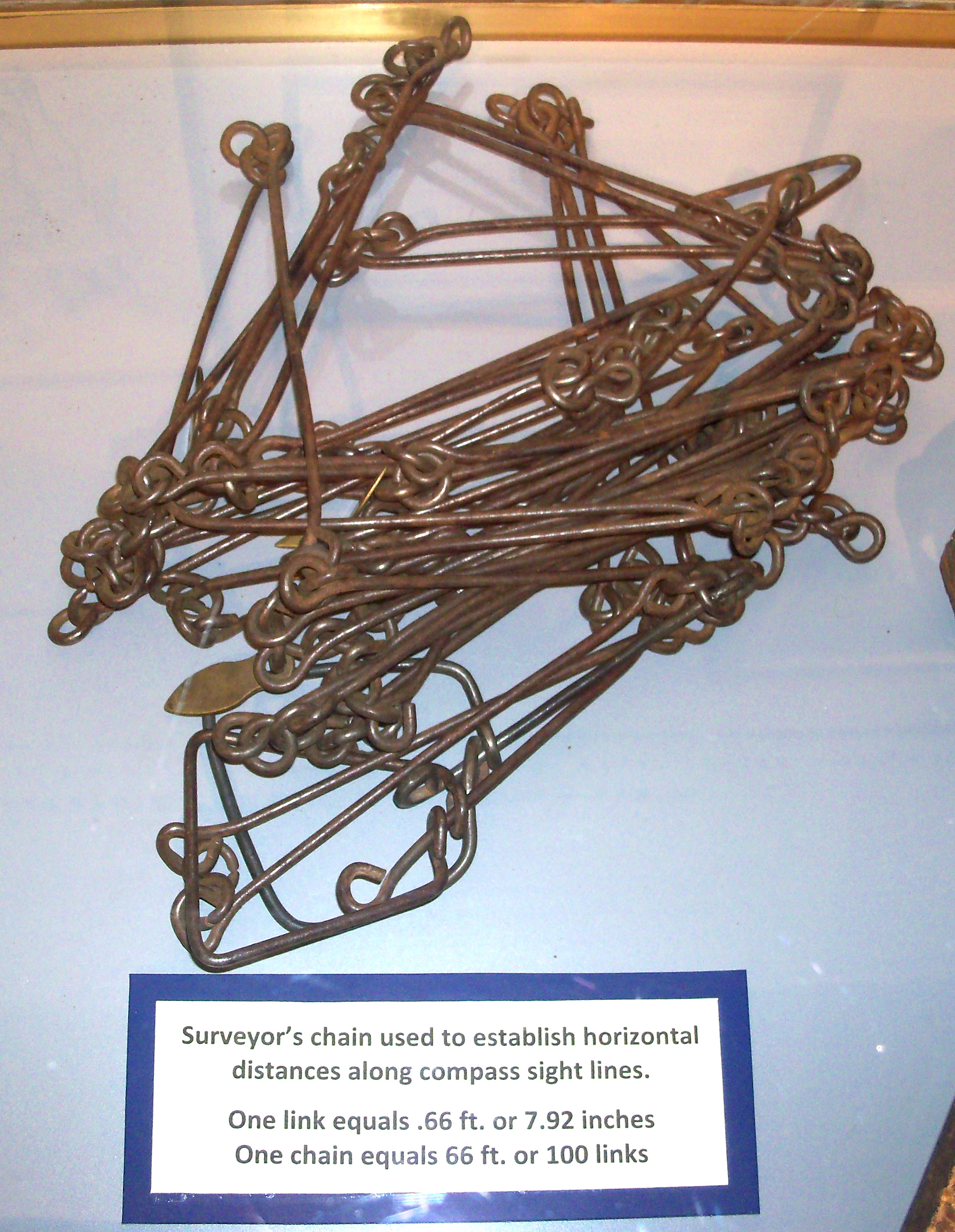 Gunter's chain photographed at Campus Martius Museum.